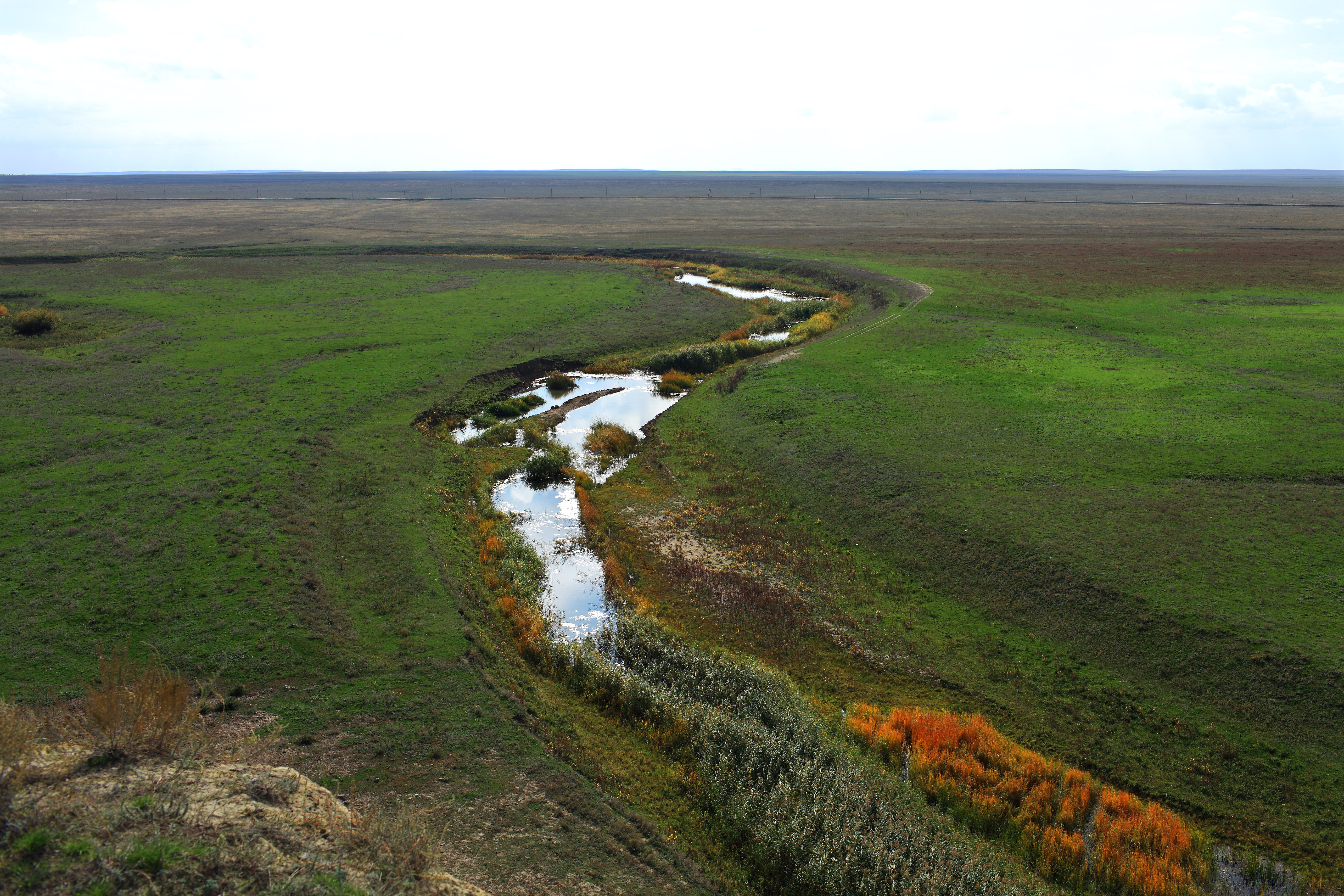 Malaya Khobda River